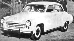 IAMGE "Graciela".